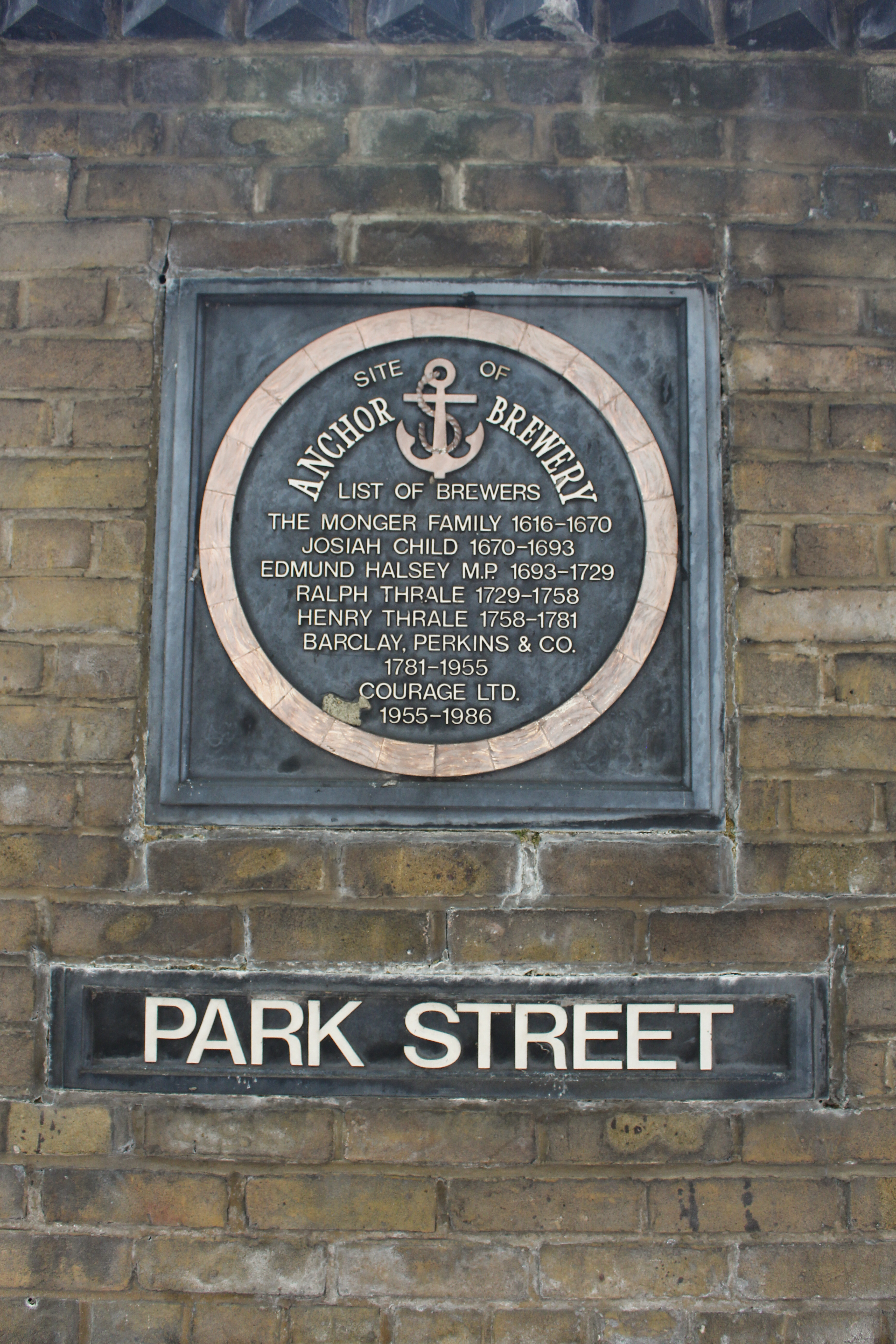 Plaque marking the site of the former Anchor Brewery, London, and its various owners over the years. This image represents an Open Plaques entry #11723.